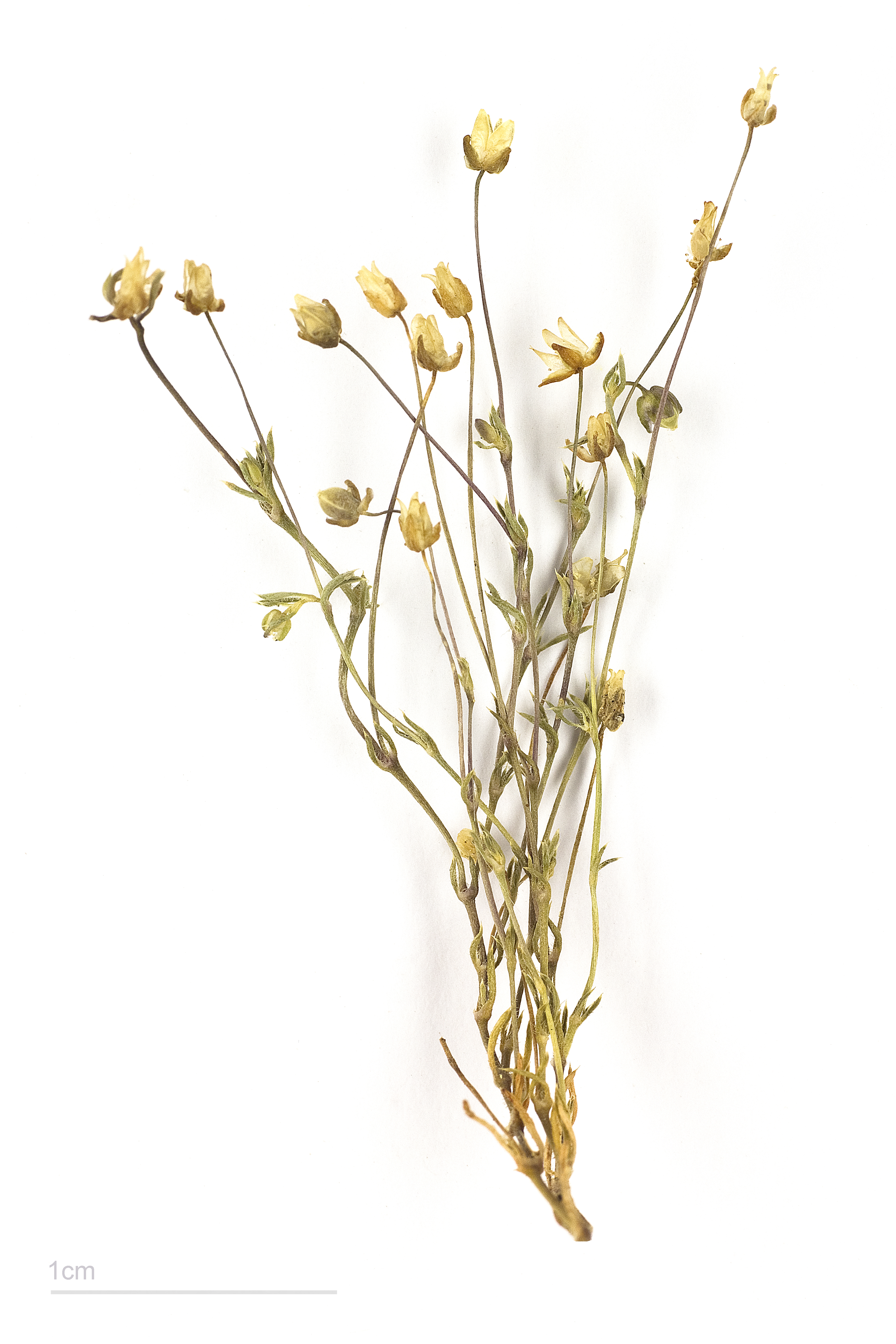 annual pearlwort, dwarf pearlwort, fruits and seeds